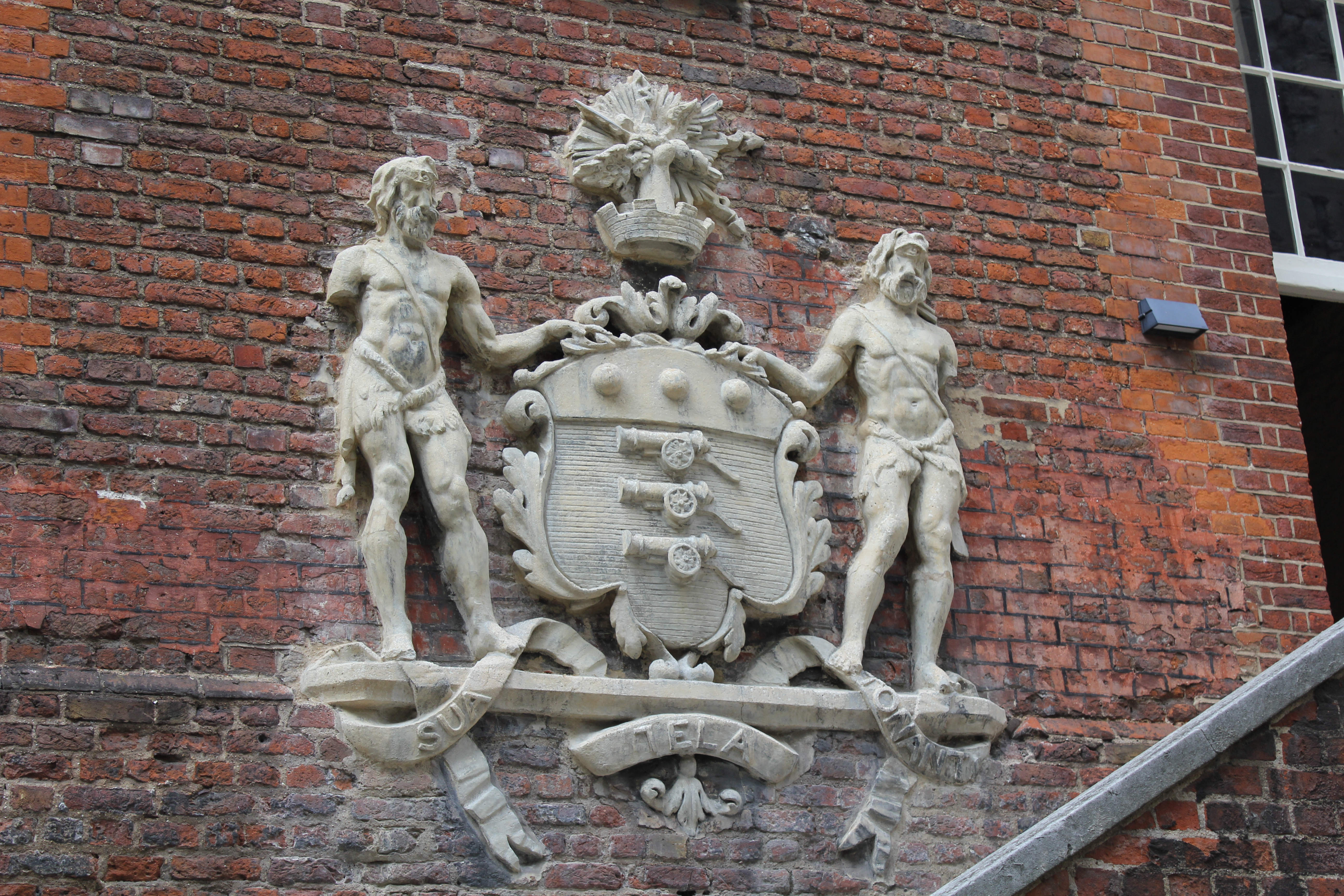 Tower of London Wikidata has entry Q17645576 with data related to this monument.